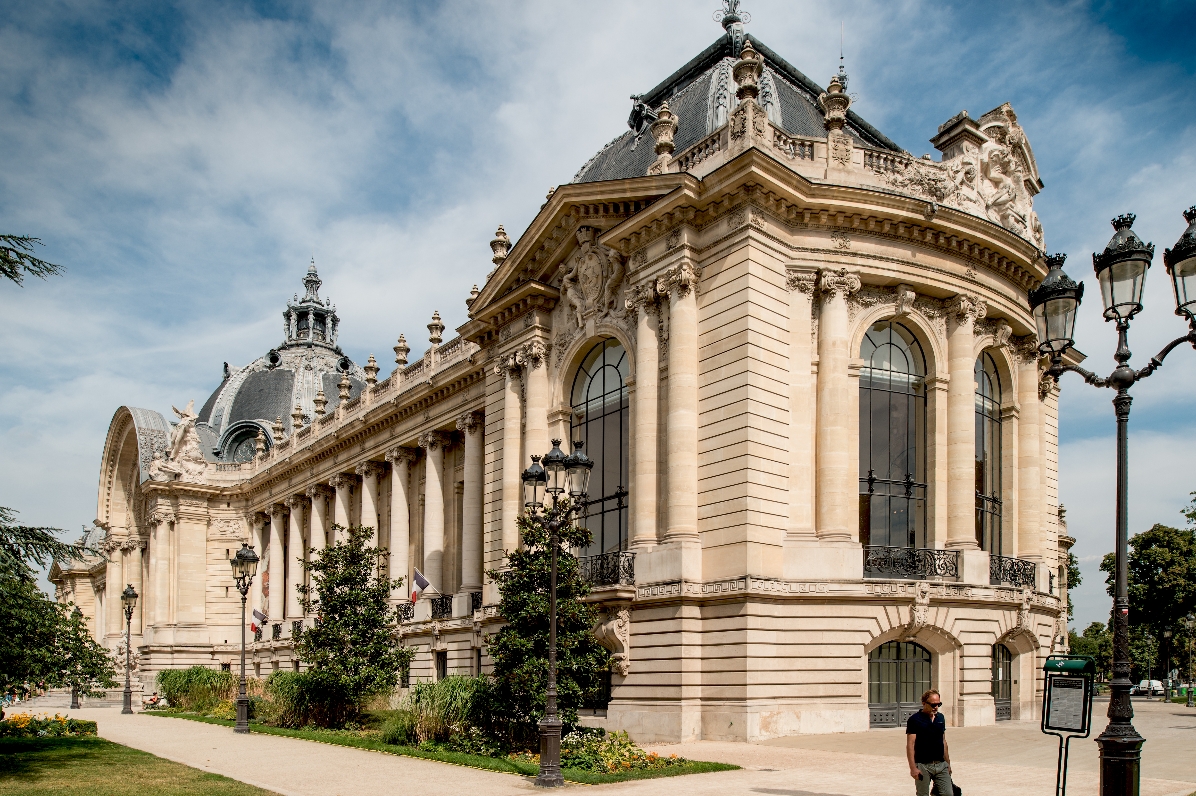 Petit palais, Paris, France, Septembre 2016